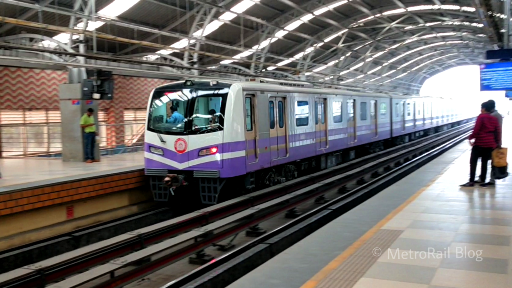 Kolkata Metro CRRC Dalian rake at Masterda Surya Sen metro station